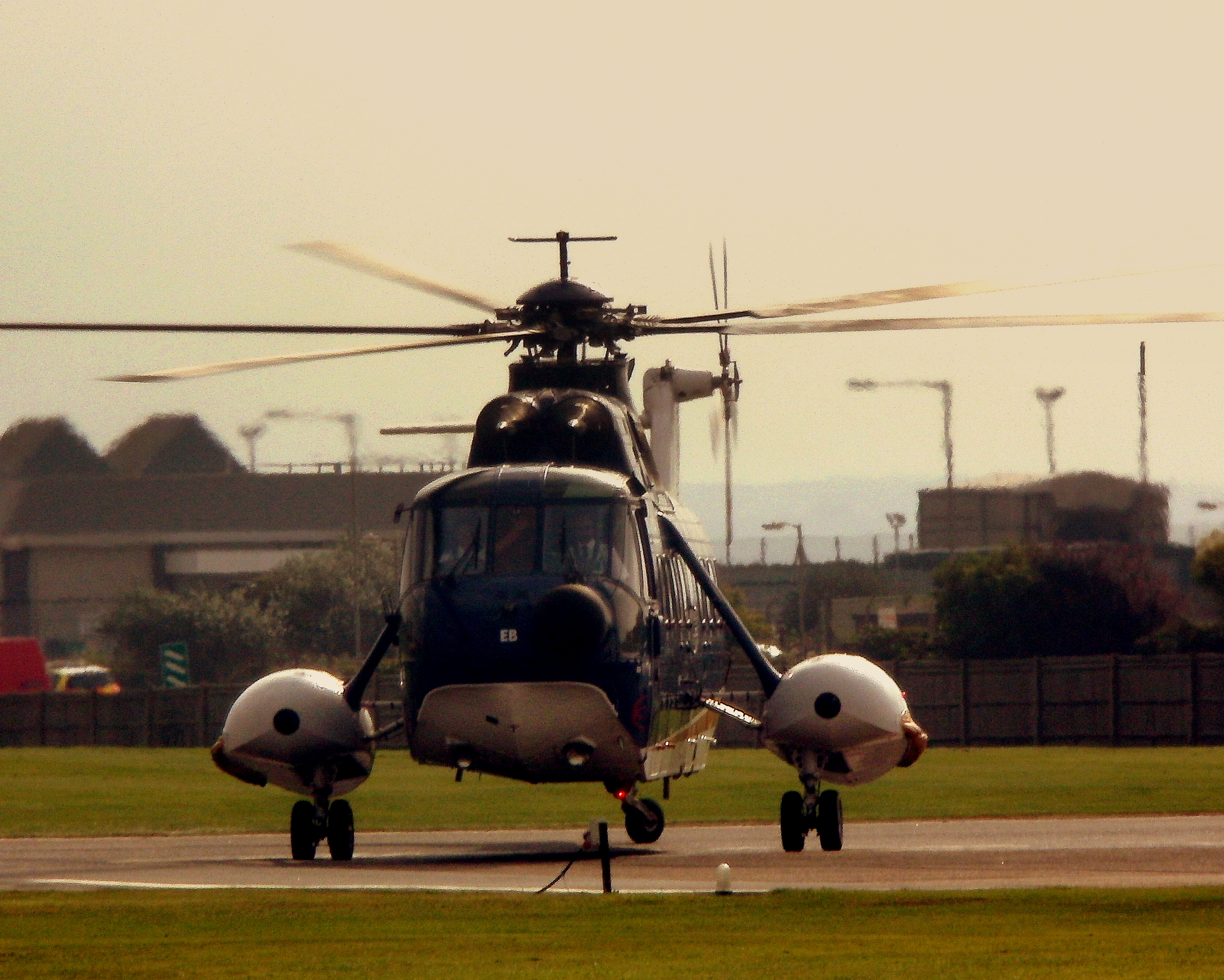 BRITISH INTERNATIONAL HELICOPTERS FLIGHT BS1110S61 GBCEB PENZANCE TO ST MARYS SCILLY ISLES SEPT 2010